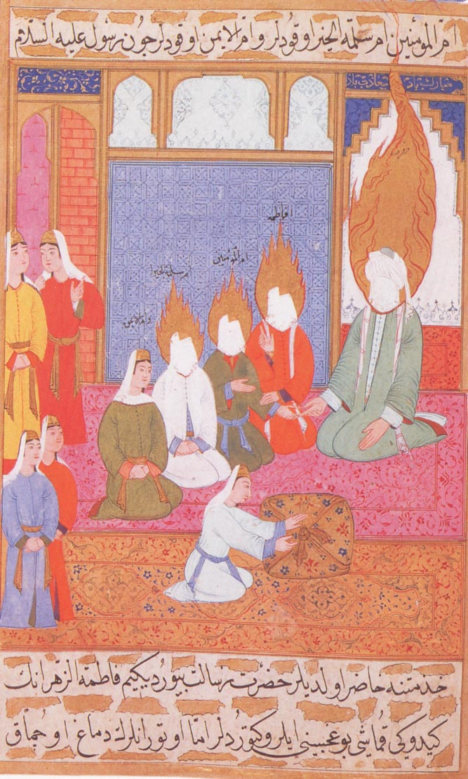 16th-century version of a 14th-century original painting showing Fatima (foreground), on her way to a Jewish wedding party, receiving a parcel of the green cloak brought by the Angel Gabriel from Paradise, in the presence of Mohammed (on the right), his young wife Aisha (next to him), and family members. Ottoman miniature from Siyer-i Nebi (Life of the Prophet), currently in the Chester Beatty Library, Dublin.